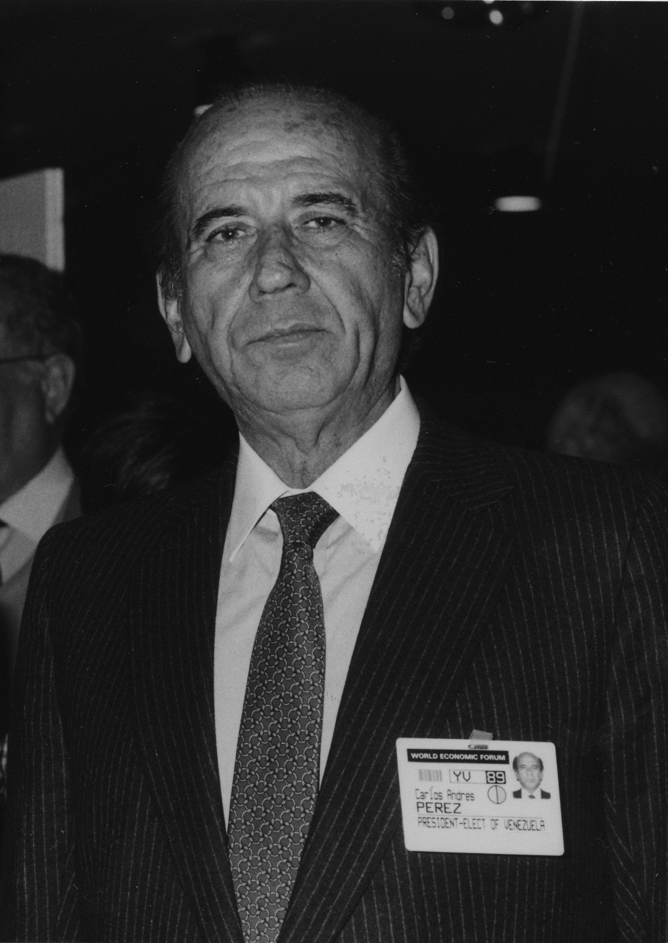 DAVOS/SWITZERLAND, JAN 1989 - (fltr) Klaus Schwab and Venezuela’s President-elect Carlos Andrés Pérez at the Annual Meeting of the World Economic Forum in Davos in 1989. Copyright World Economic Forum (